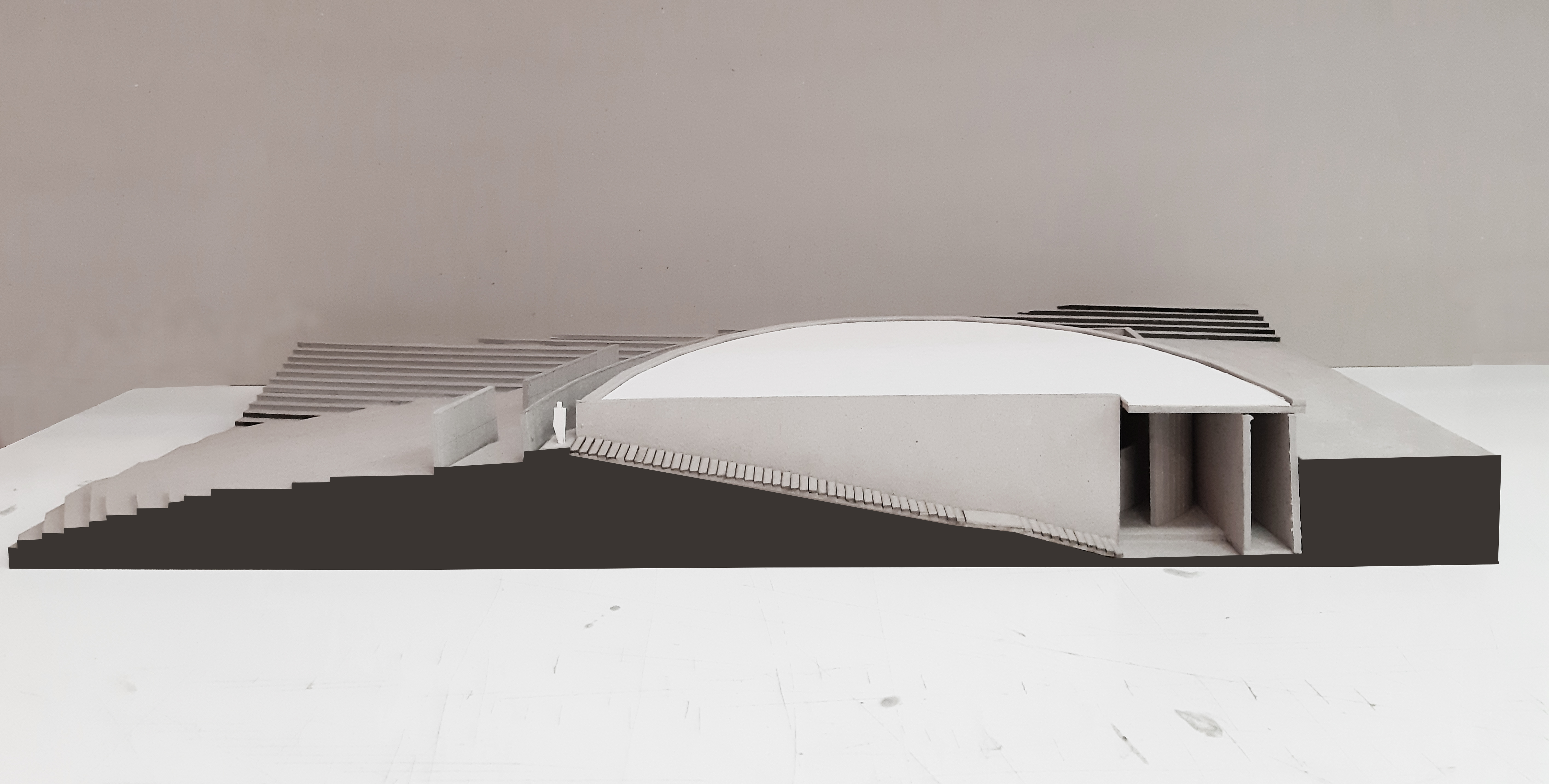 photo of model of the building "Water Temple" designed by the architect Tadao Ando